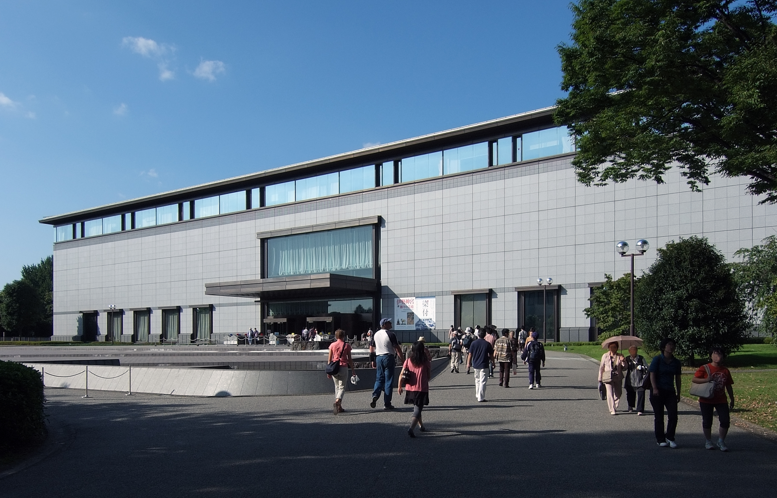 Heiseikan of Tokyo National Museum, at Taito-ku Tokyo Japan.